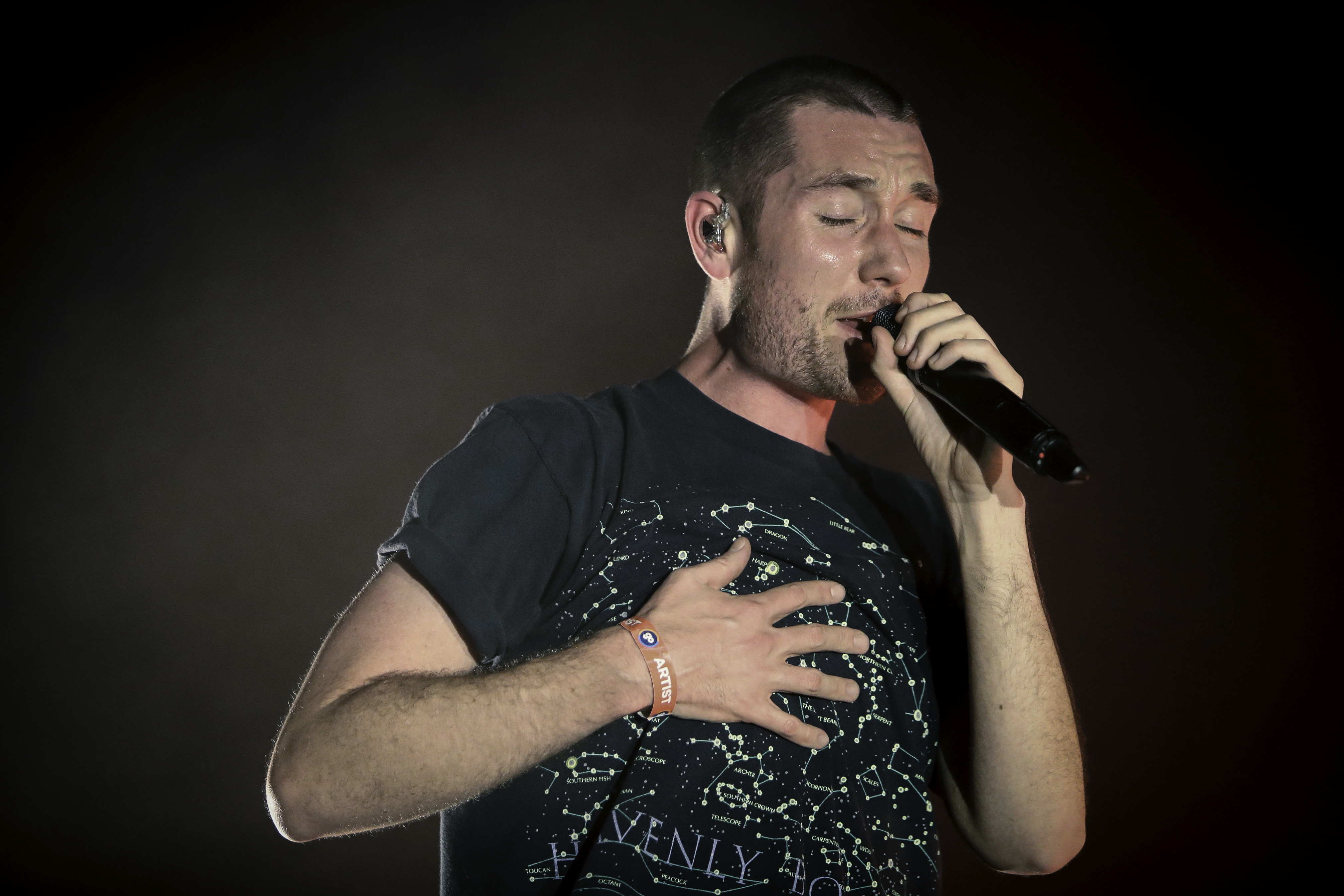 Bastille - Palace Theatre - St. Paul - First Avenue